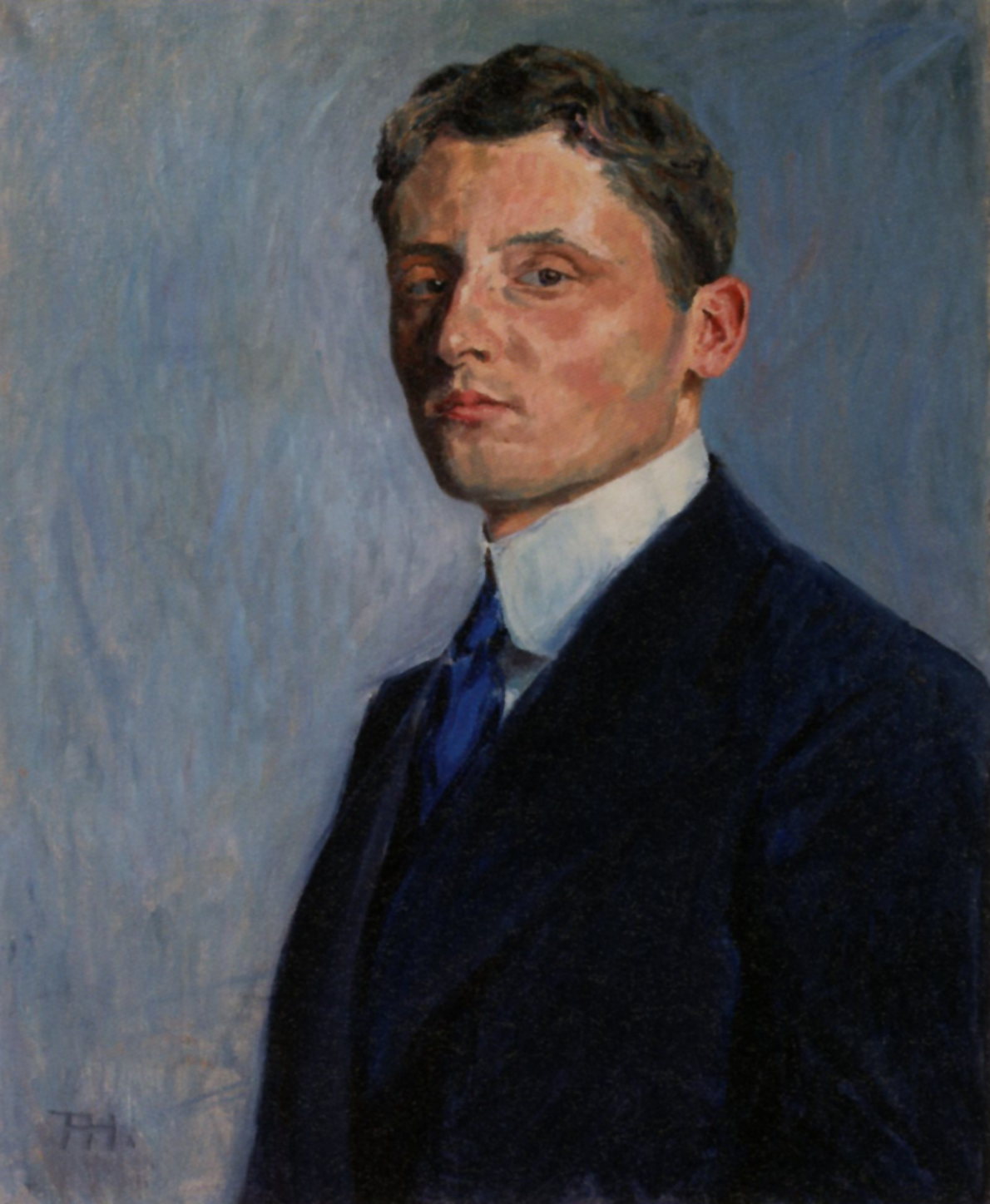 Self-portrait by August Haake about 1912.